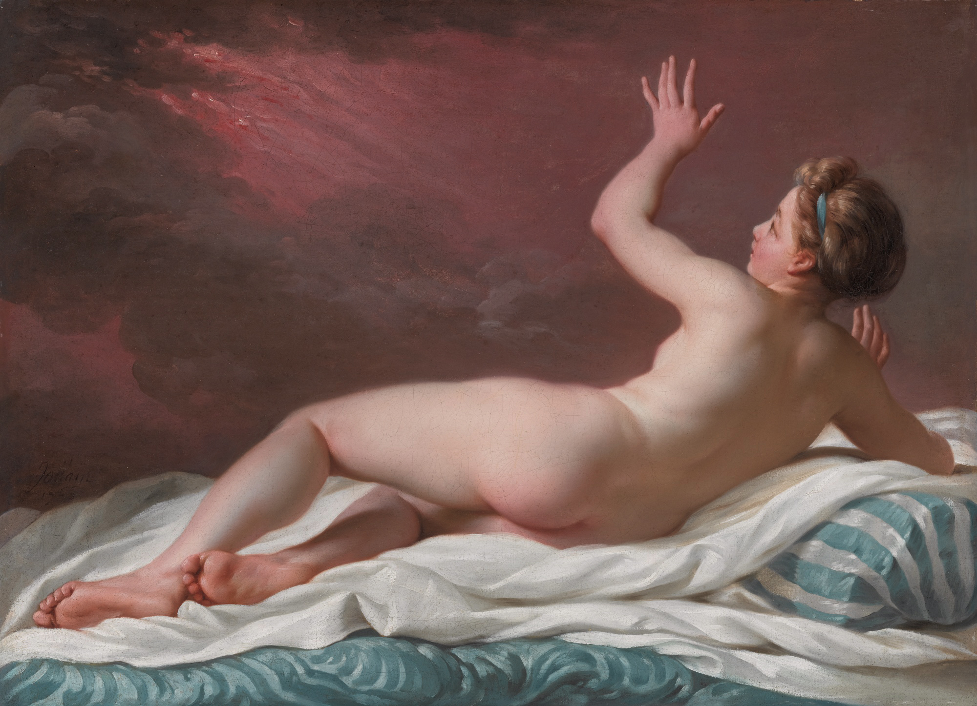 Danaë